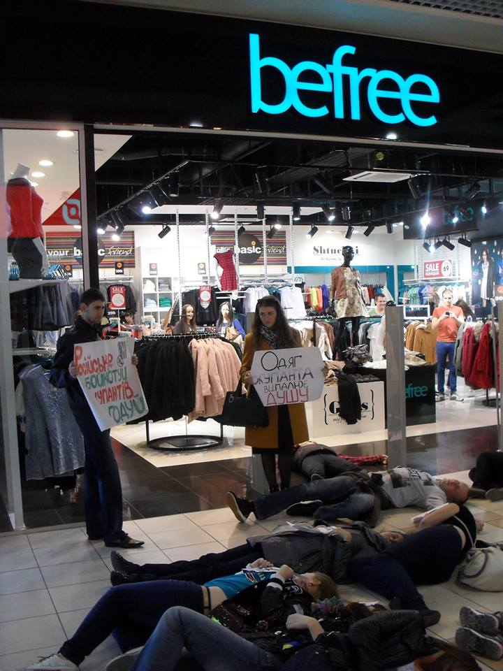 Flash mob near Russian clothing store "Befree" in Kyiv, "Do not buy Russian goods!" campain. Picture made by activist of "Vidsich".